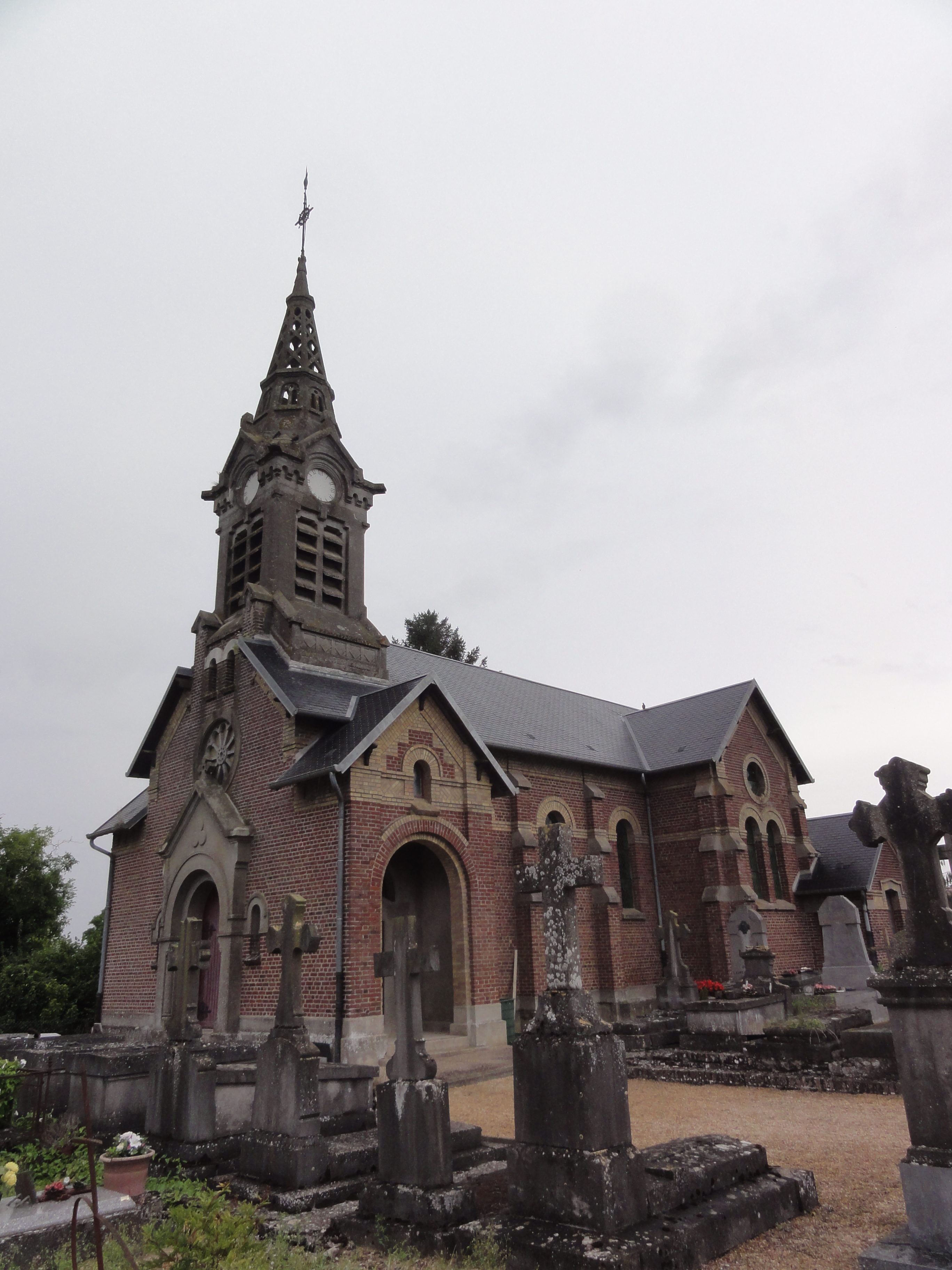 Ly-Fontaine (Aisne) église Saint-Jacques et Saint-Christophe